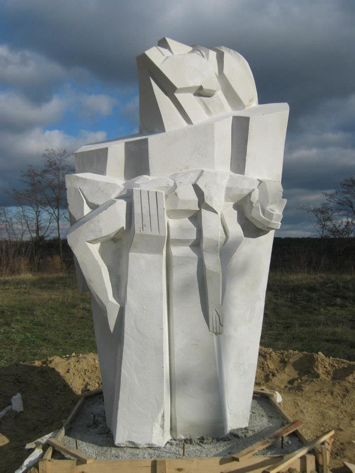 Памятник Жертвам Геноциду українського народу. Кагарлицький р-н. с.Зікрачі на Київщині